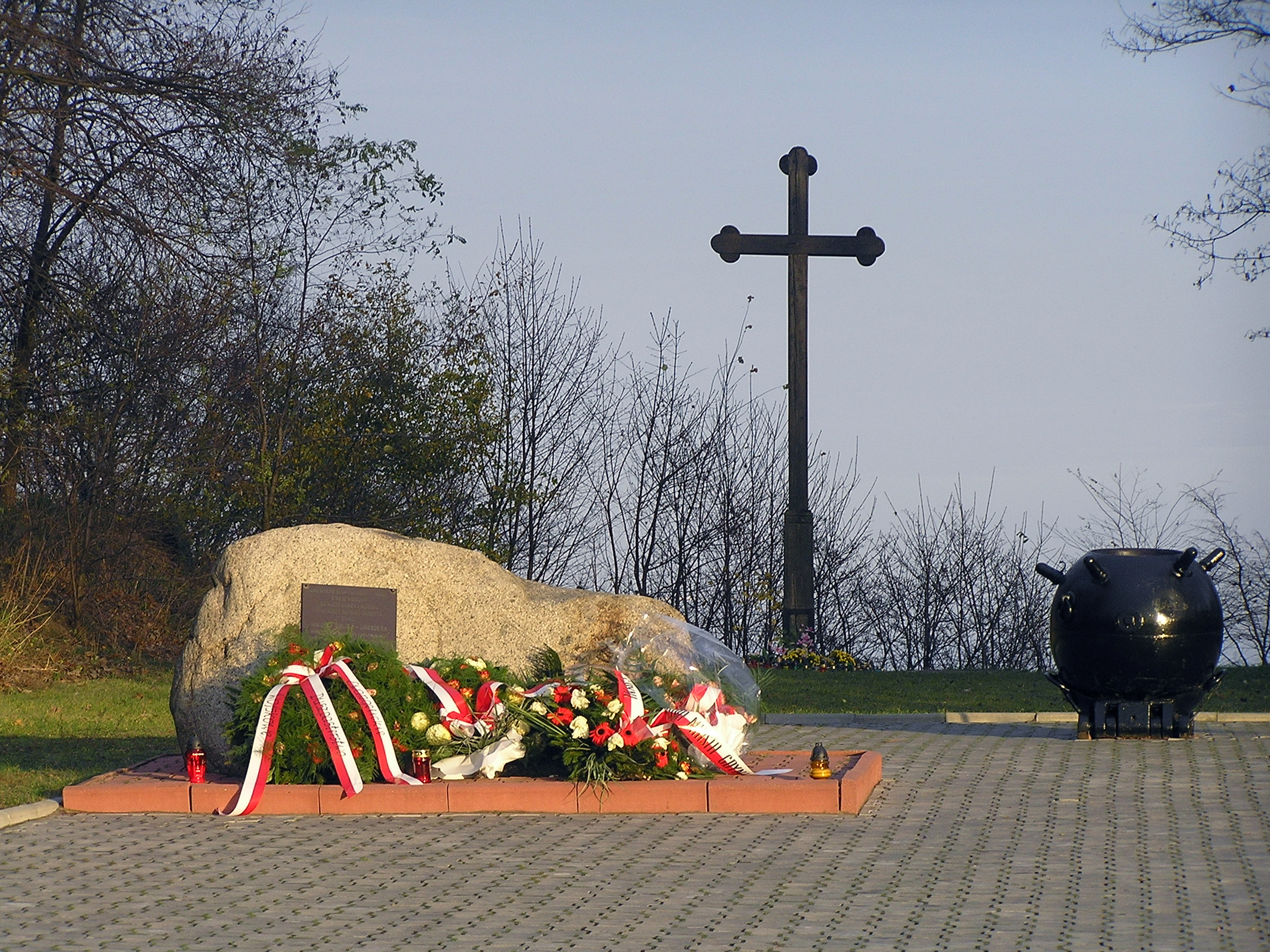 Monument to Maj Gen Gustaw Orlicz-Dreszer and soldiers of "Canet" Battery on the Polish Navy Cemetery in Gdynia.